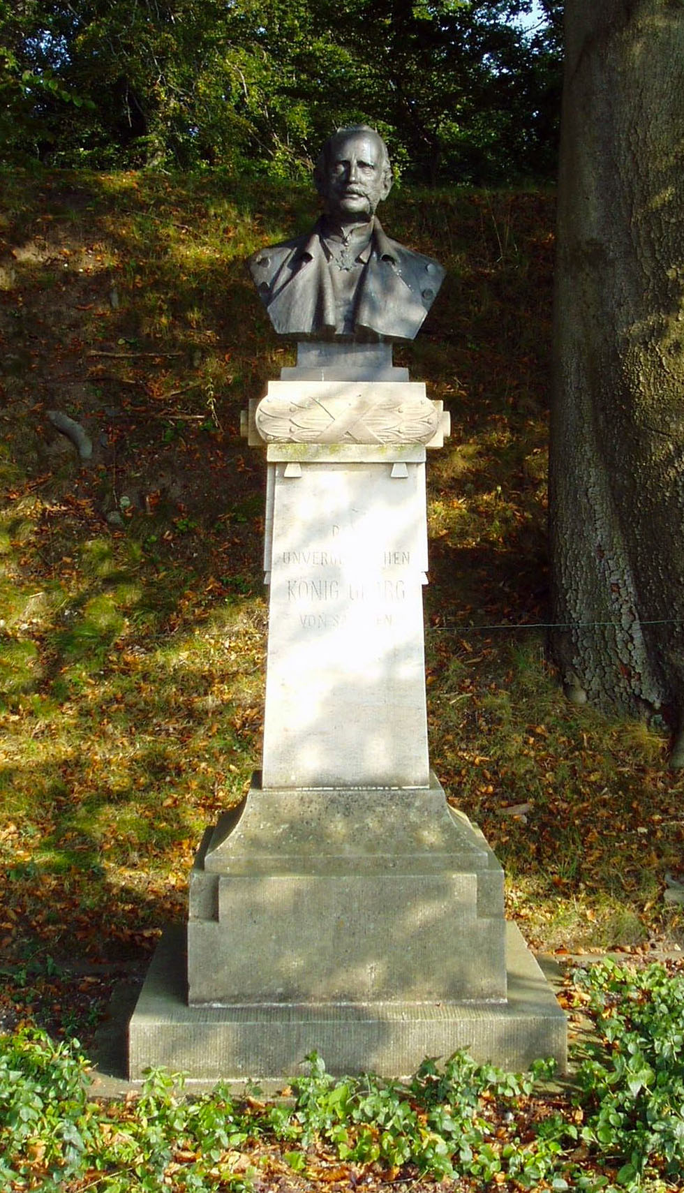 Bust of George of Saxony, sculptor: Otto Panzner (1853-1921), 1909, Königstein Fortress, Saxony, Germany